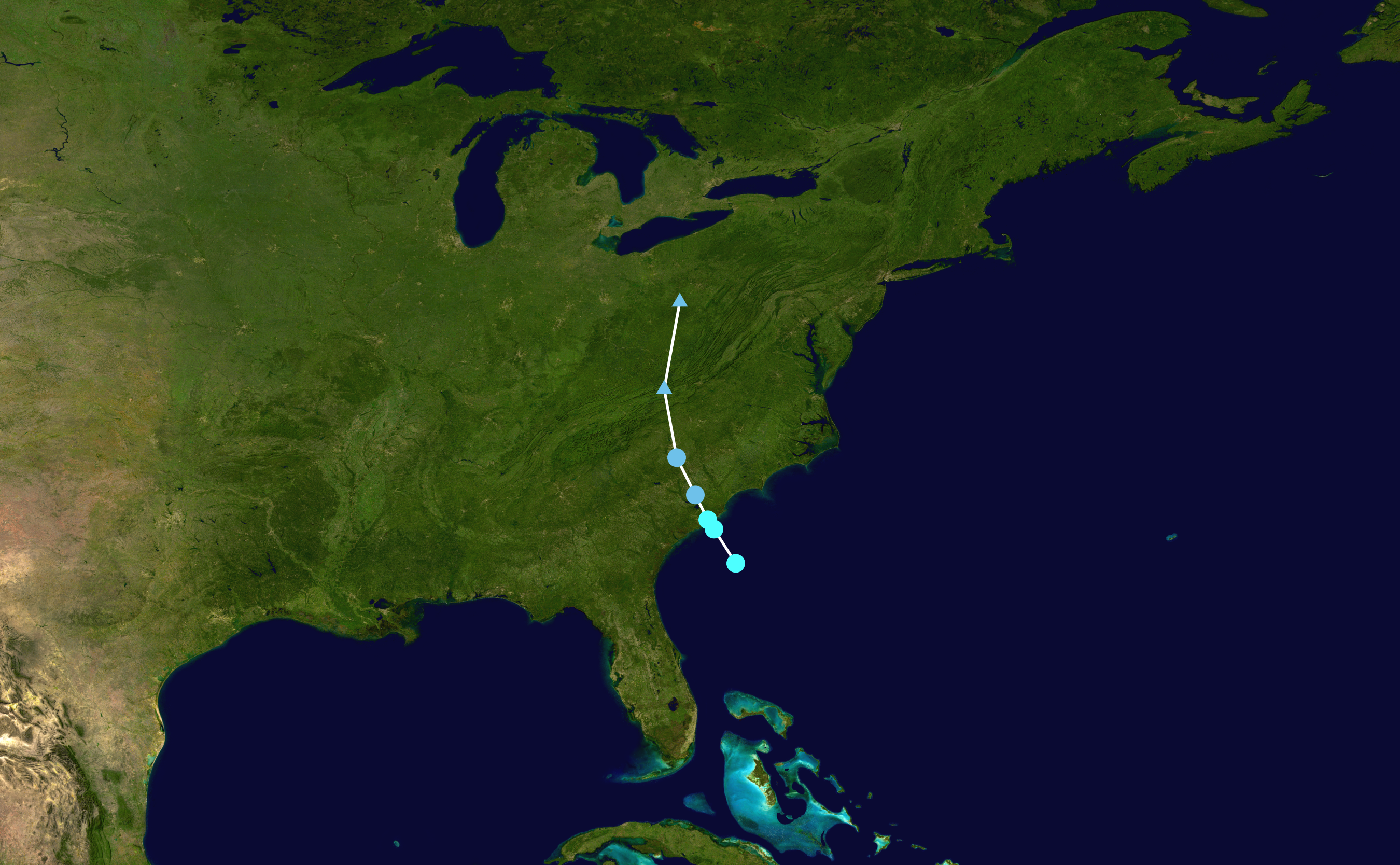 Track map of Tropical Storm Bertha of the 2020 Atlantic hurricane season. The points show the location of the storm at 6-hour intervals. The colour represents the storm's maximum sustained wind speeds as classified in the Saffir–Simpson scale (see below), and the shape of the data points represent the nature of the storm, according to the legend below. Saffir–Simpson scale Tropical depression≤38 mph≤62 km/h Category 3111–129 mph178–208 km/h Tropical storm39–73 mph63–118 km/h Category 4130–156 mph209–251 km/h Category 174–95 mph119–153 km/h Category 5≥157 mph≥252 km/h Category 296–110 mph154–177 km/h Unknown Storm type Tropical cyclone Subtropical cyclone Extratropical cyclone / Remnant low / Tropical disturbance / Monsoon depression